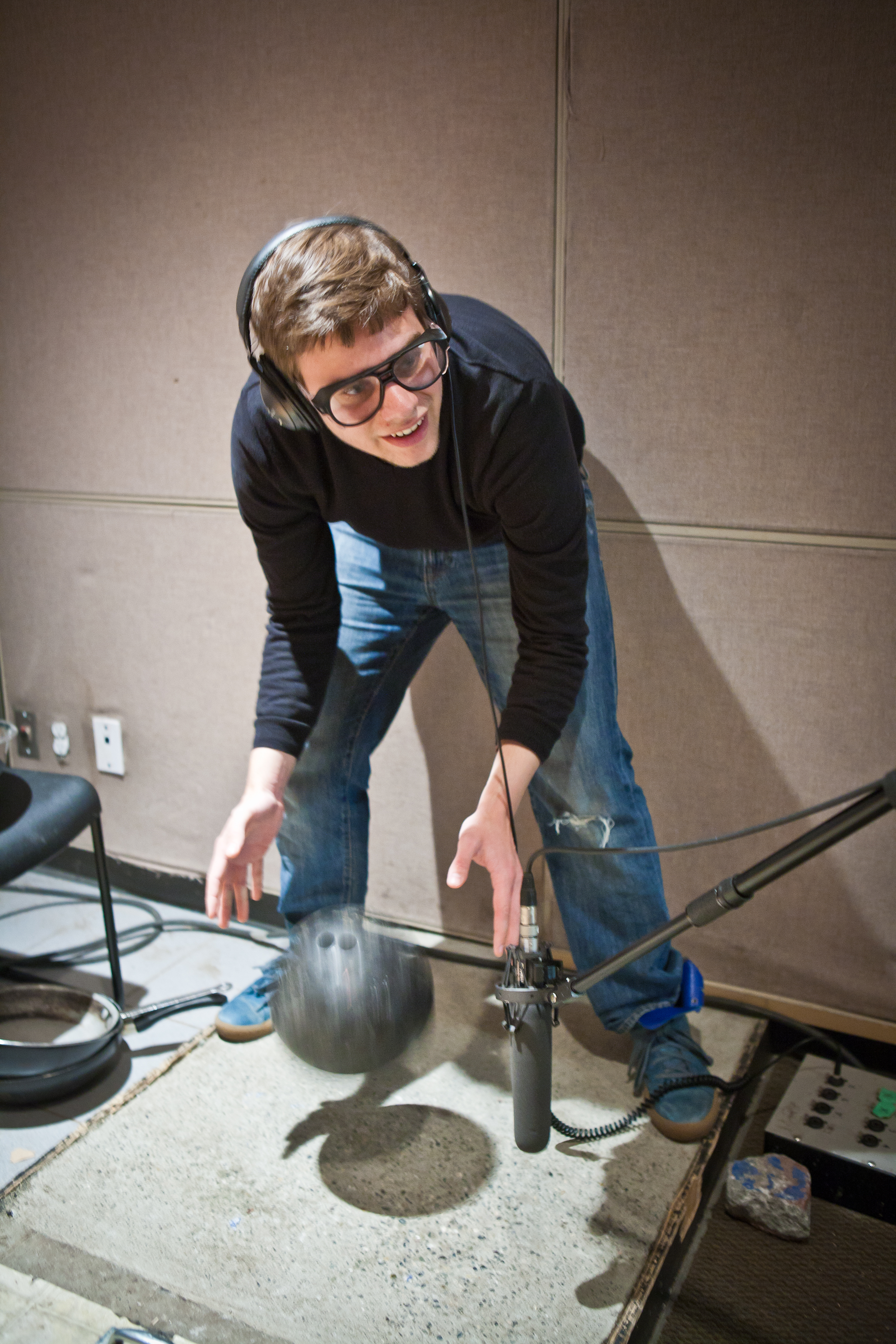 Foley is the art of recording post-production sound effects in real time to match the picture. VFS has its own Foley studios full of all the usual - and unusual - props. Find out more about VFS's one-year Sound Design for Visual Media program at